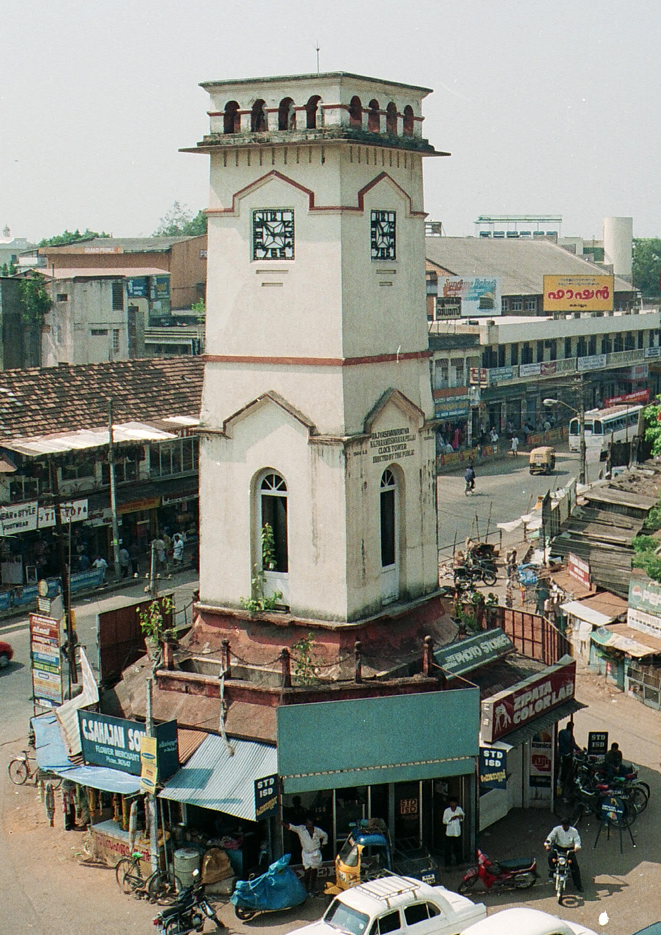 Clock Tower at Chinnakkada, Kollam